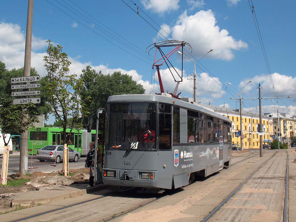 Minsk, tramway AKSM-1M #028 on route #3.